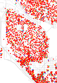 Maps of racial and ethnic divisions in US cities, inspired by Bill Rankin's map of Chicago, updated for Census 2010. Red is White, Blue is Black, Green is Asian, Orange is Hispanic, Yellow is Other, and each dot is 25 residents. Data from Census 2010. Base map © OpenStreetMap, CC-BY-SA